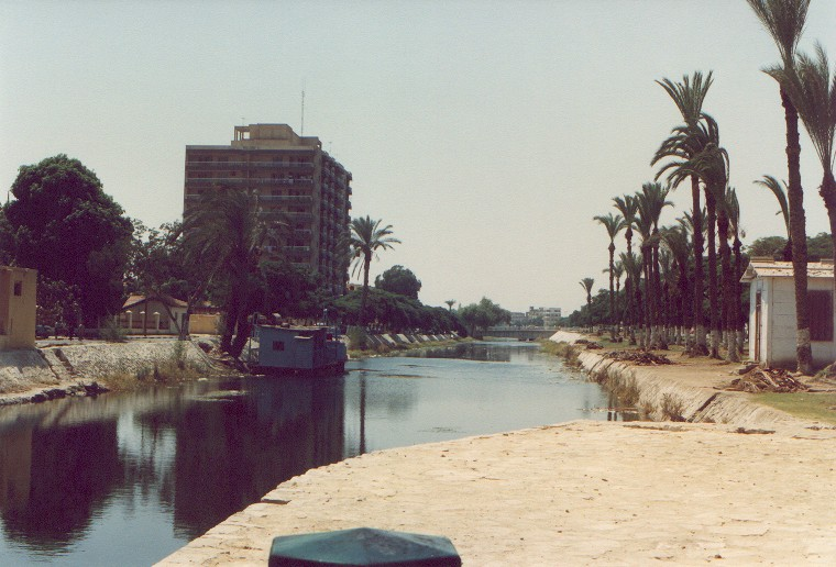 A scene from Ismailia, Egypt, photographed in 1990.